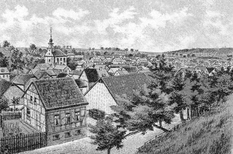 Beuerbach Anno 1800